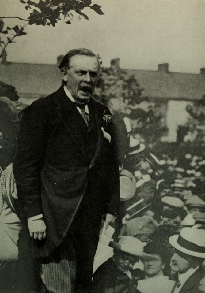 "Lloyd-George Explaining his Policies."